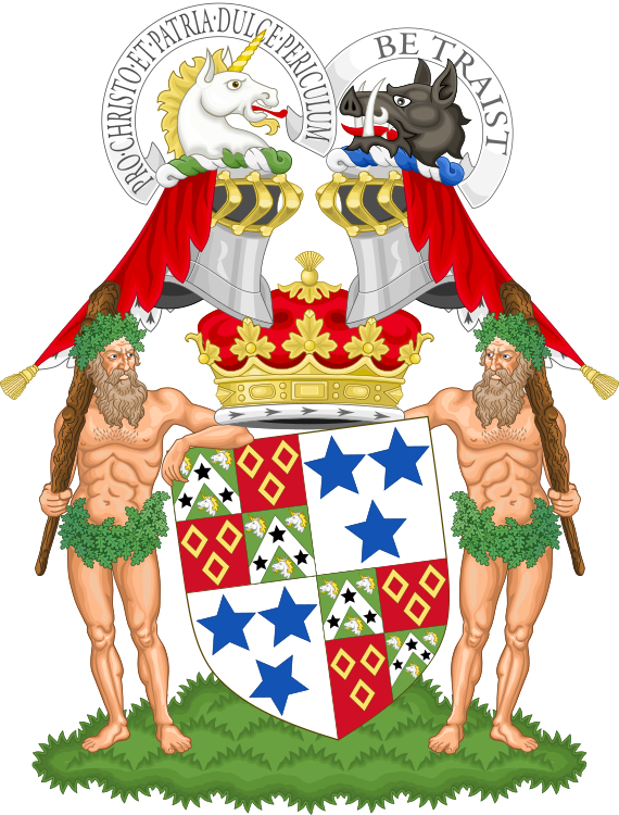 coat of arms of the duke of Roxburghe Arms. uarterly, 1st and 4th grandquarters: quarterly, 1st and 4th, Vert on a Chevron between three Unicorns' Heads erased Argent armed and maned Or as many Mullets Sable (Ker); 2nd and 3rd, Gules three Mascles Or (Weepont); 2nd and 3rd grandquarters: Argent three Stars of five points Azure (Innes). Crest. 1st: A Unicorn's Head erased Argent armed and maned Or (Ker); 2nd: A Boar's Head erased proper langued Gules (Innes). Supporters. On either side a Savage wreathed about the head and middle with Laurel and holding in his exterior hands a Club resting on the shoulder all proper. Motto. 1st, Pro Christo Et Patria Dulce Periculum (For Christ and country danger is sweet); 2nd, Be Traist. Cracroft's Peerage